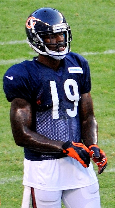 Wide receiver, Josh Morgan, at Chicago Bears training camp in 2014.